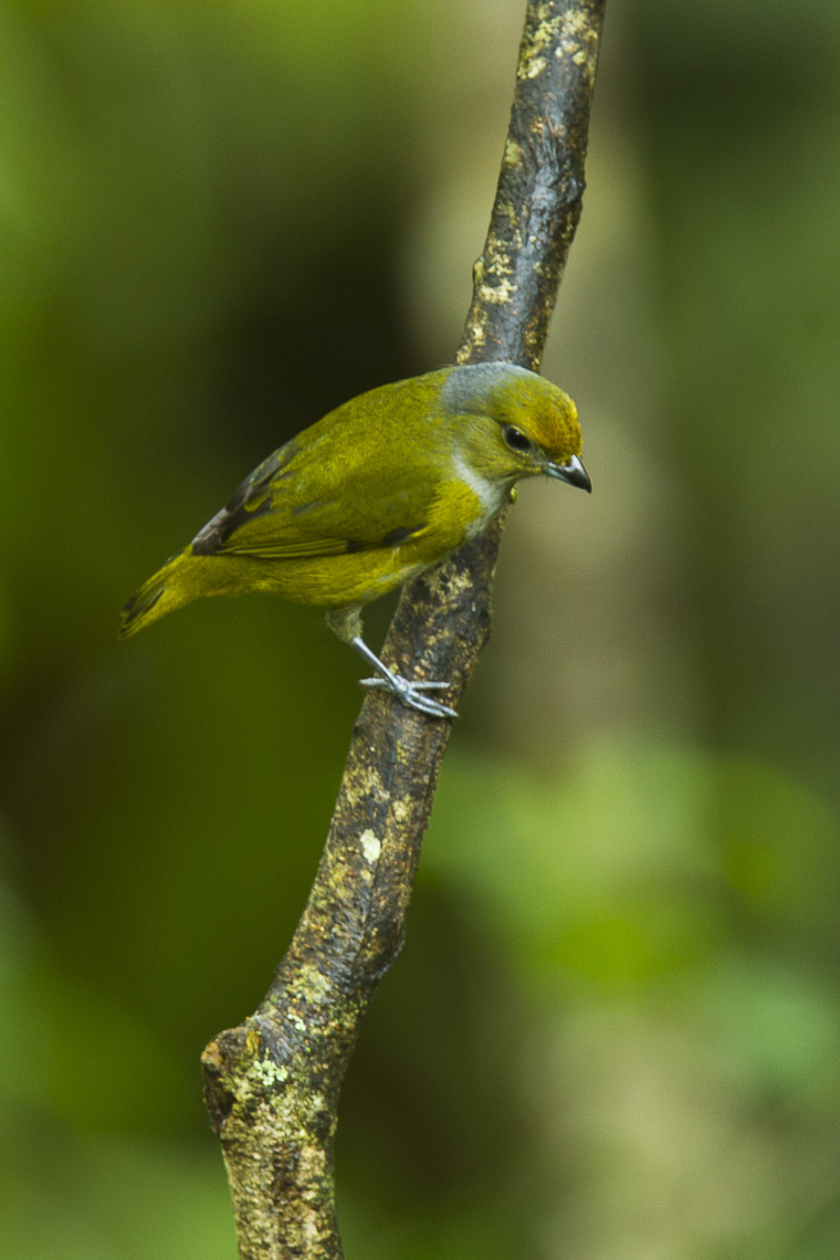 Bronze-green Euphonia - South Ecuador_S4E0810